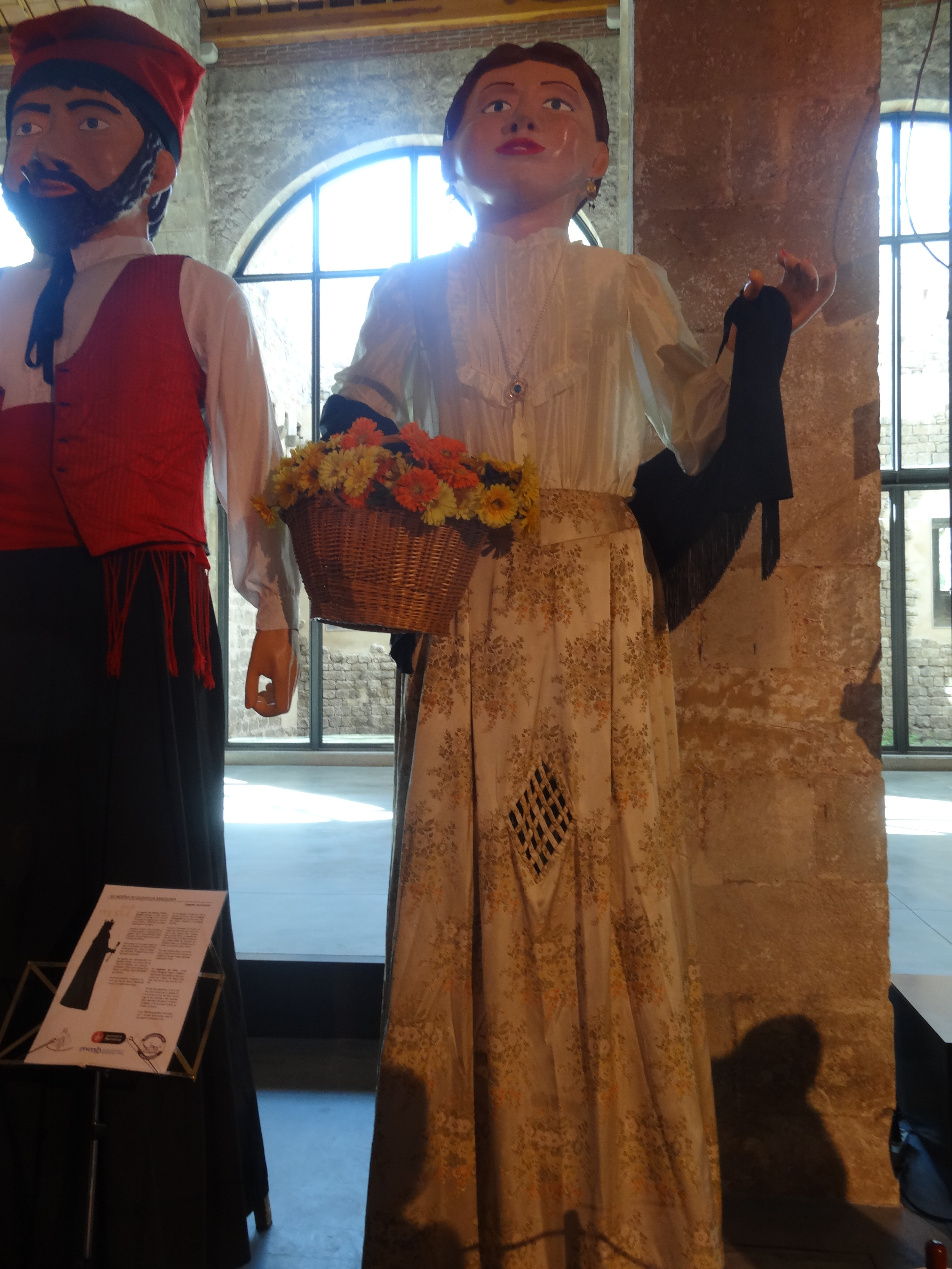 Exhibition of Giants at the Museu Marítim, Barcelona, 2013.